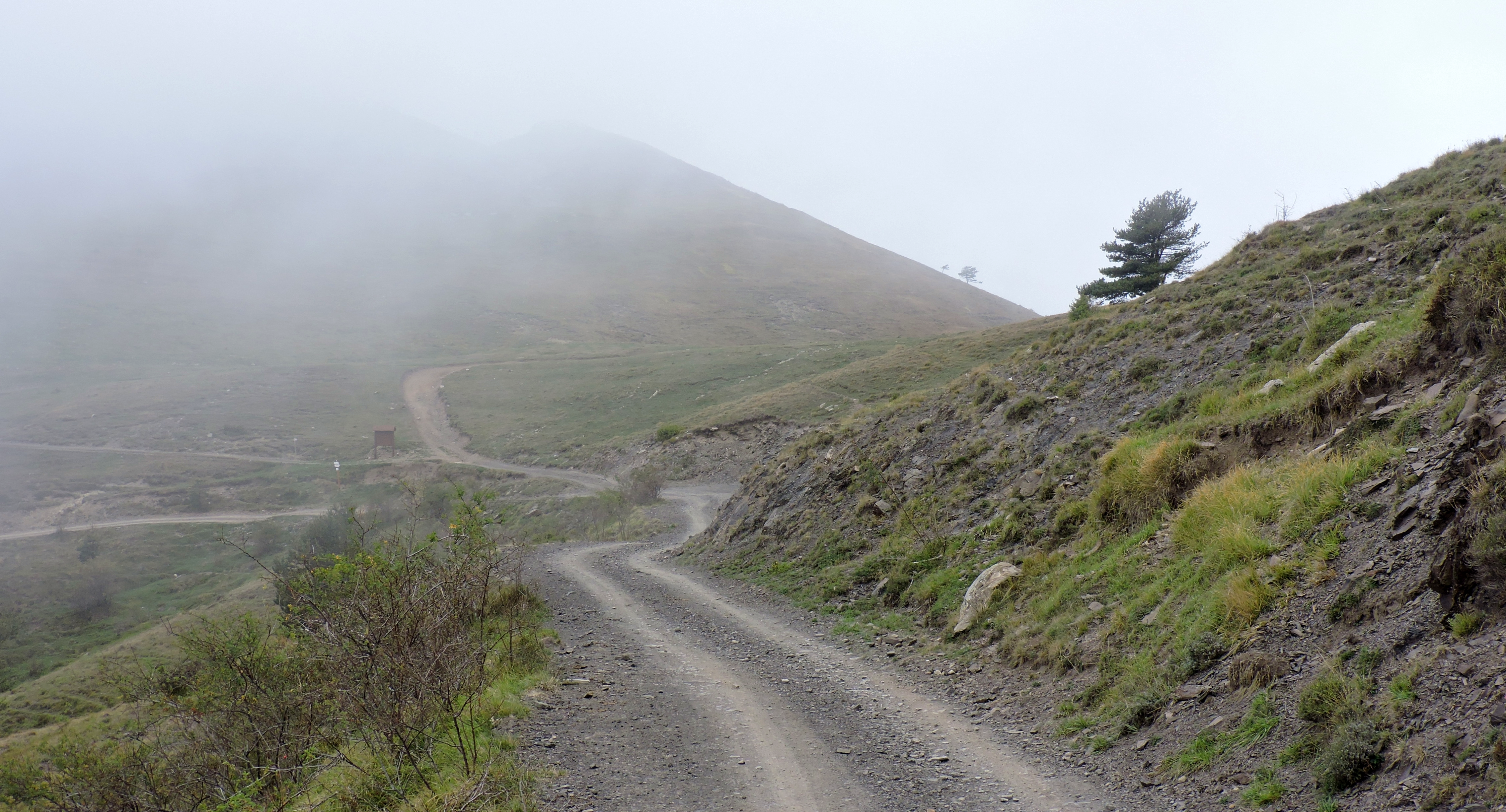 Passo della Mezzaluna (Ligurian Alps, Italy)